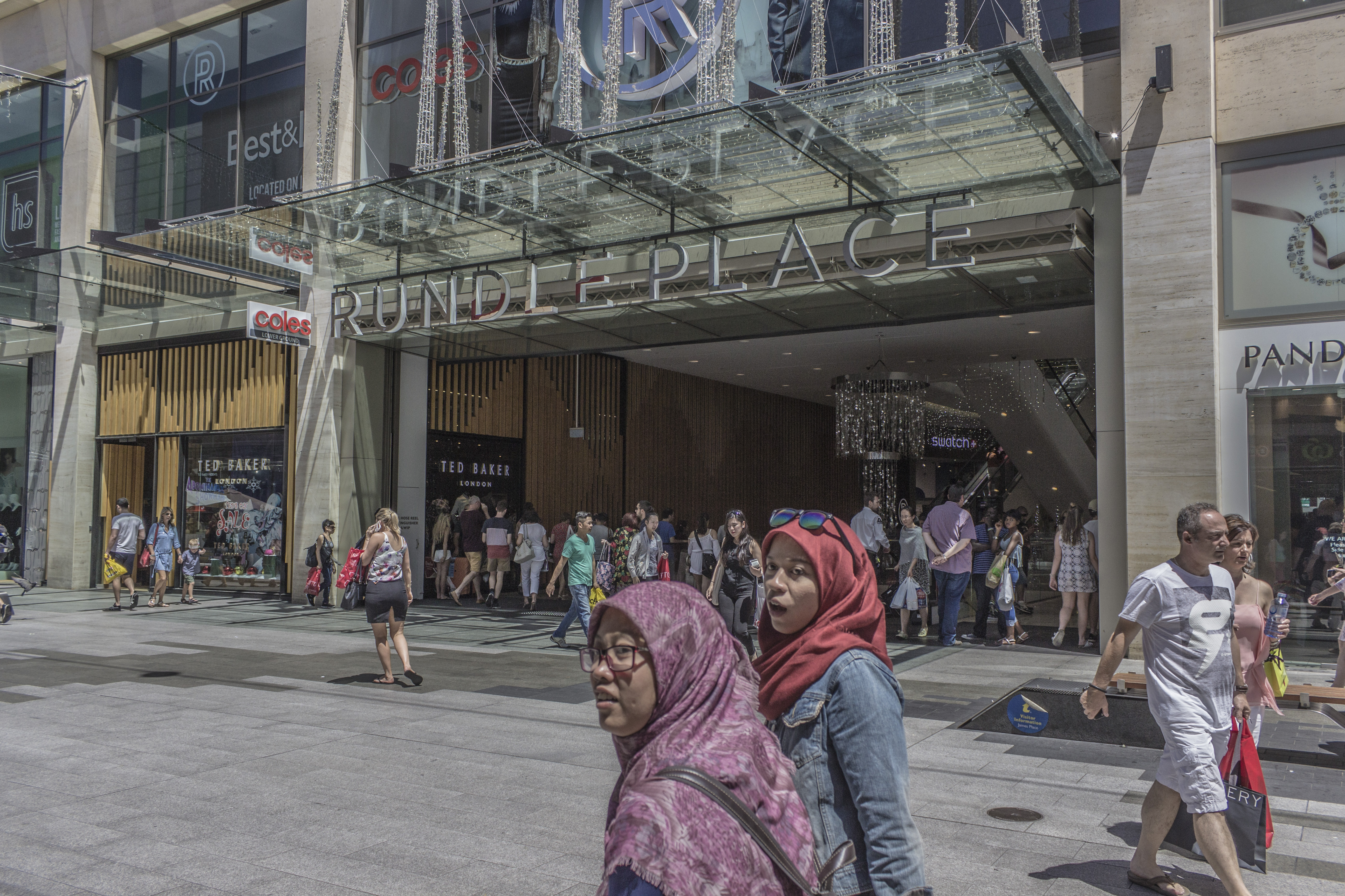 Rundle Place, Rundle Mall in Adelaide, South Australia.